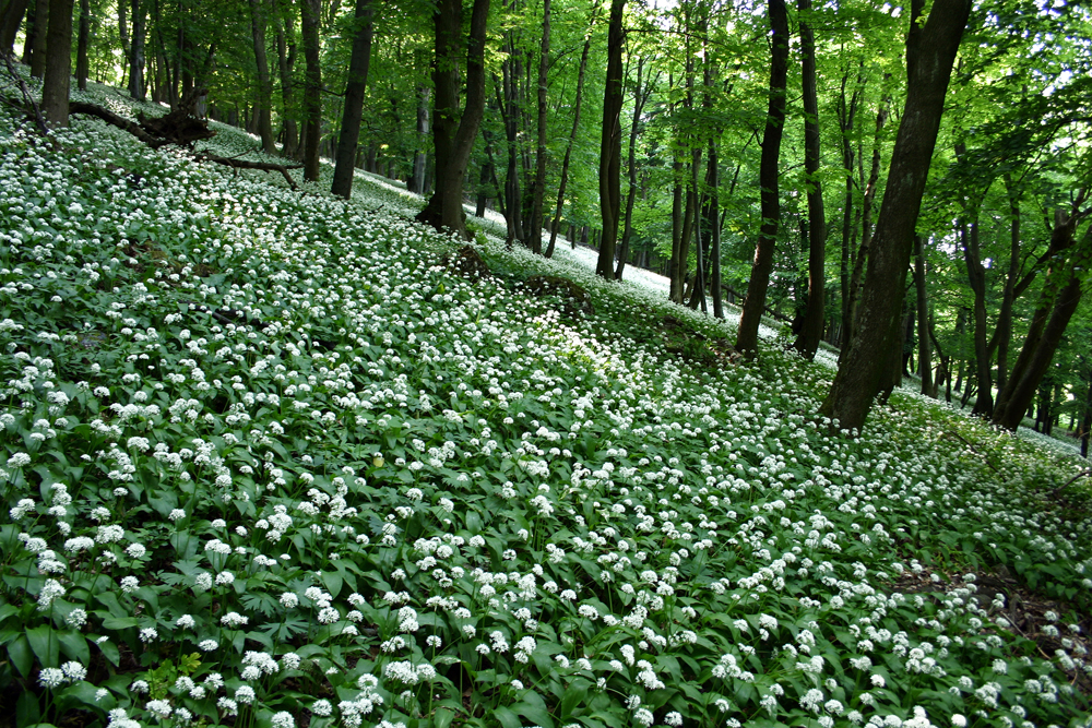 Ramsons (Allium Ursinum) in Gerecse hills, Hungary